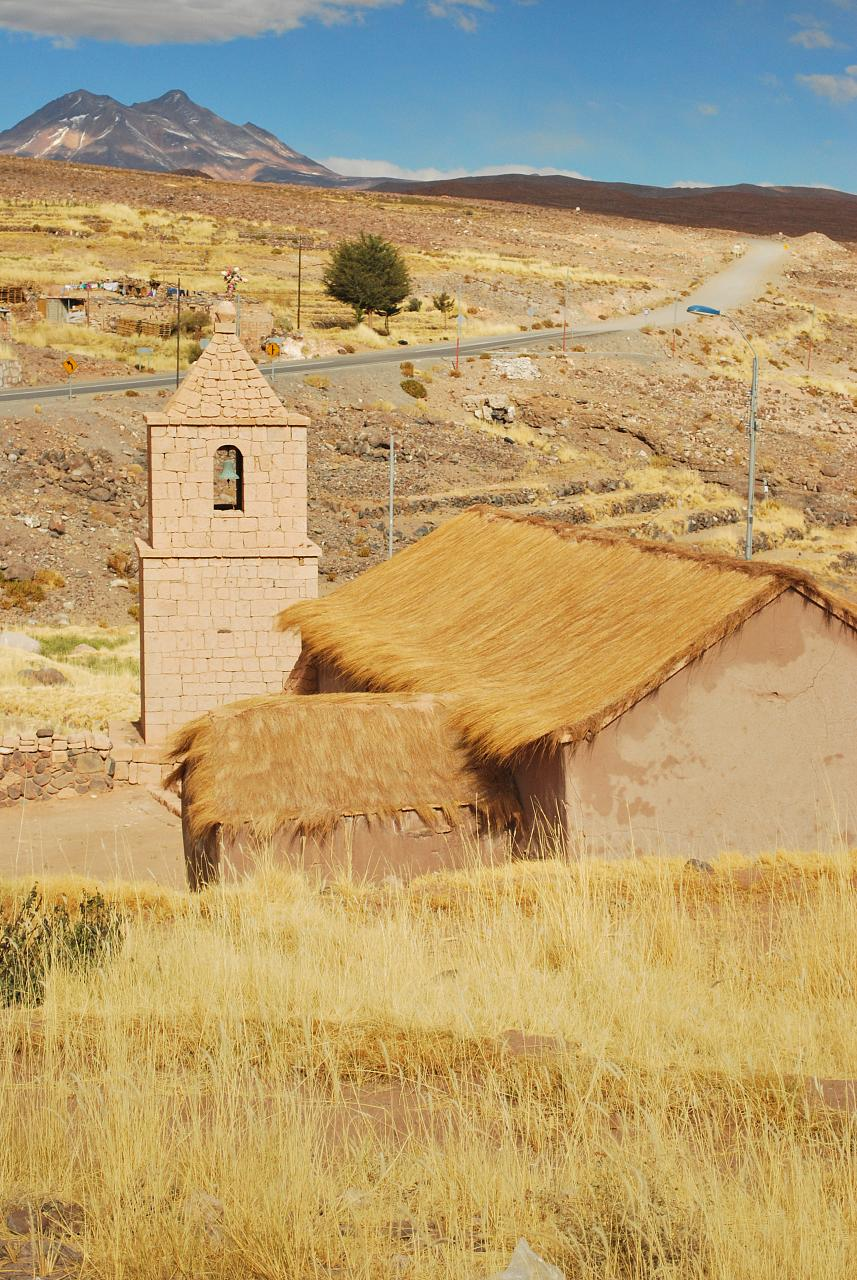 The old church of Socaire. The church and its tower are oriented to the Miñiques volcano which is a holy mountain to the people of Socaire.